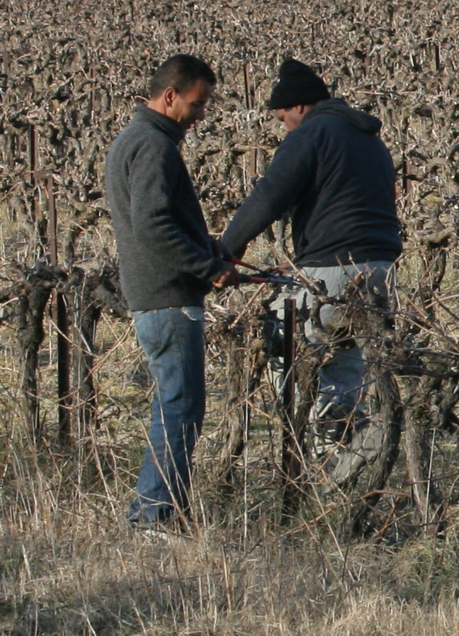 Vines pruning in winter